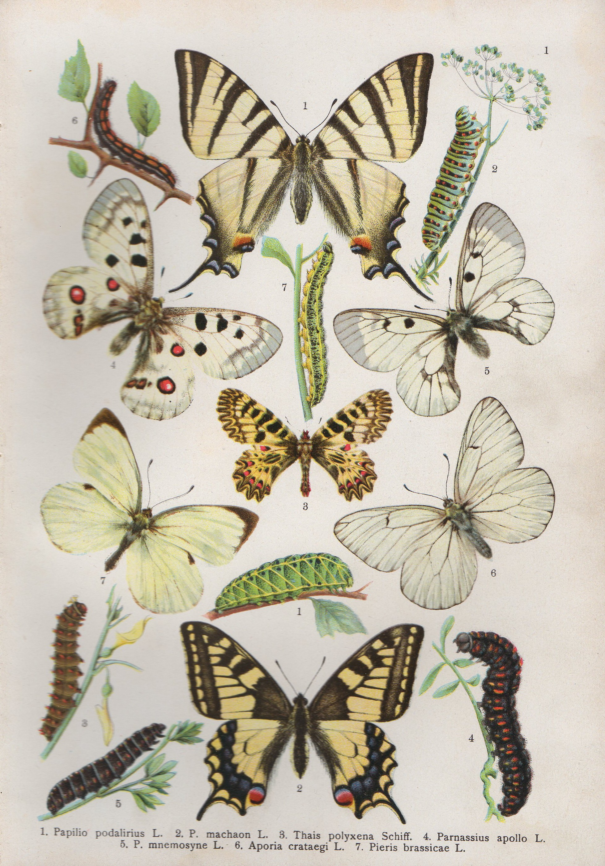 Table of Lepidoptera. From Joukl (1862-1910): "Motýlové a housenky střední Evropy" 1910.